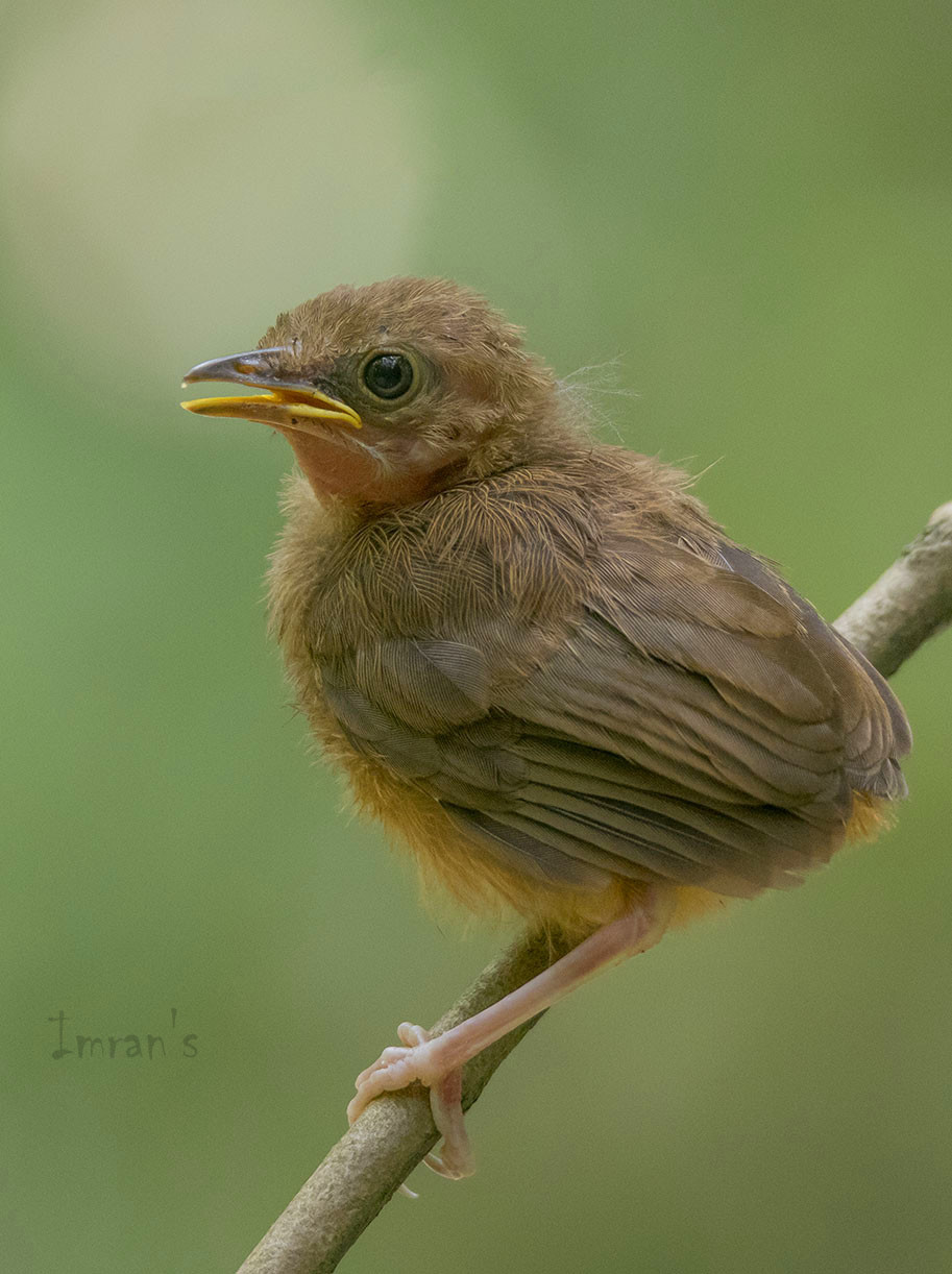 This is an Abbott's Babbler juvenile. This bird could fly as well as make calls at the time of shooting. Location unknown, subspecies unknown. No useful metadata.